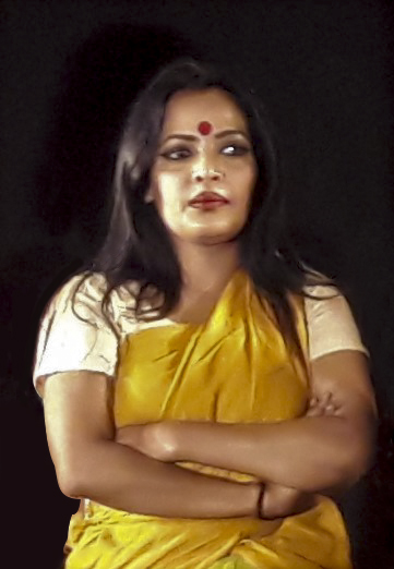 Tamalika Karmakar at Rajshahi College with the team of rarang.